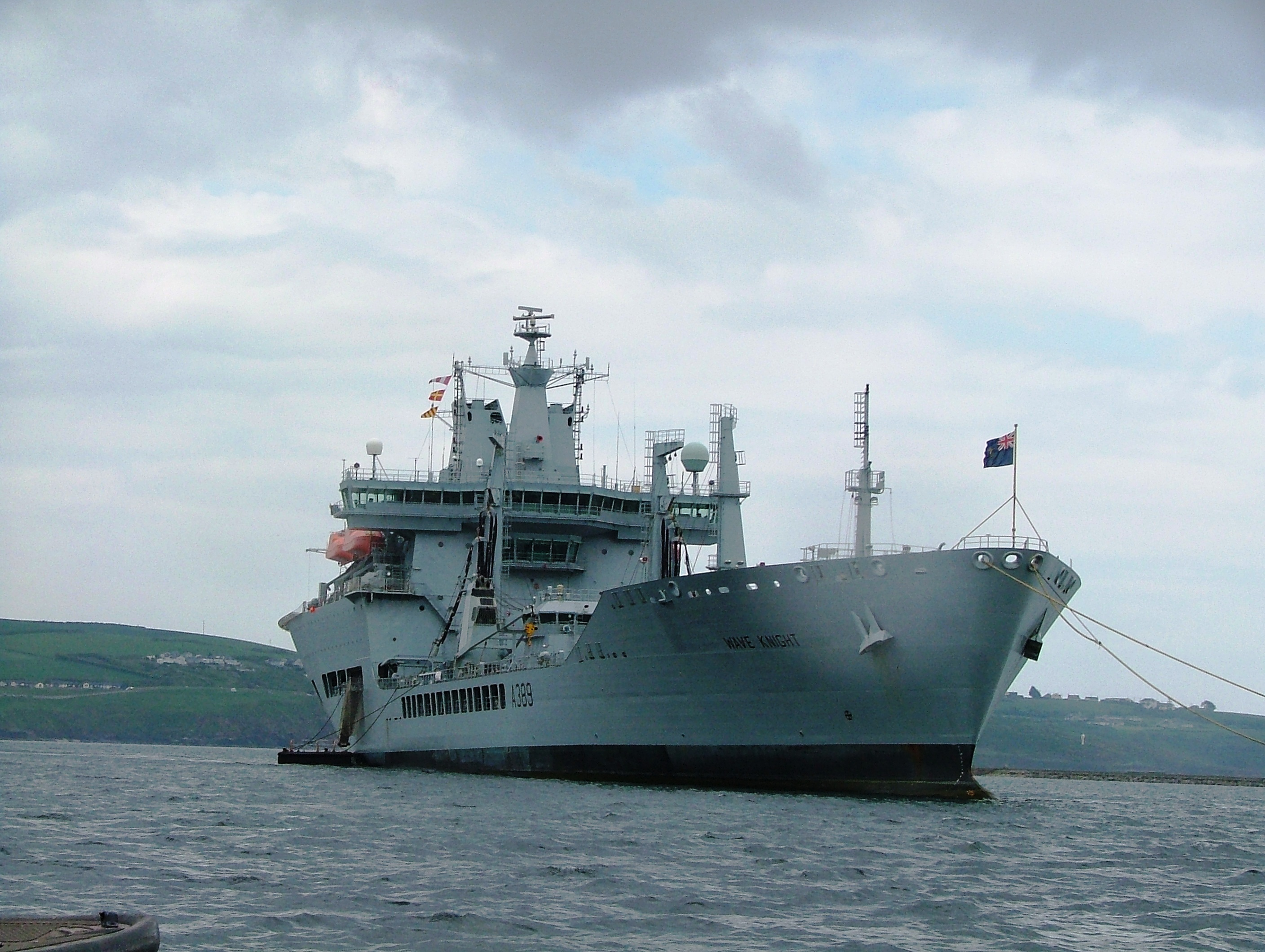 Wave Knight replenishment tanker.